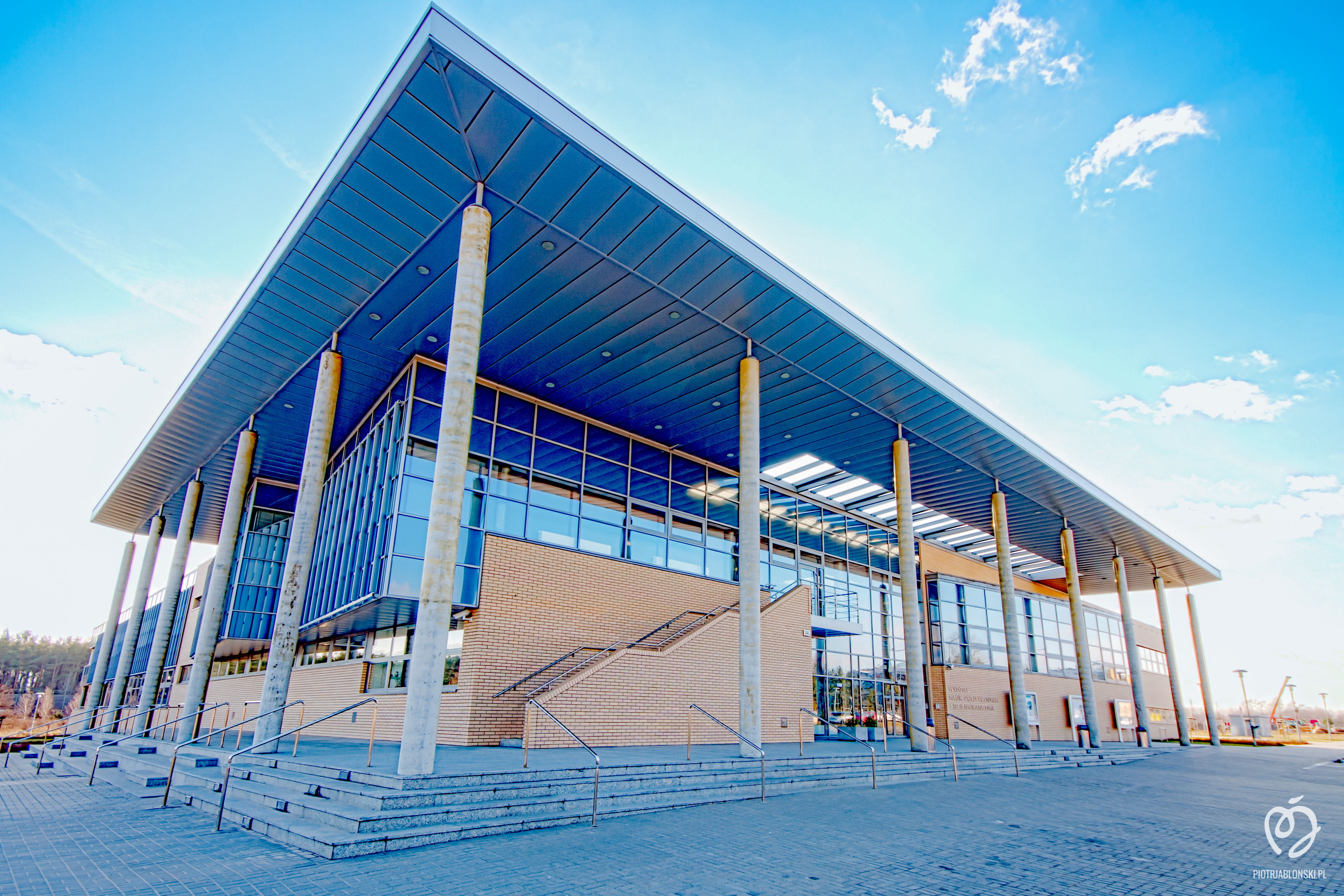 Faculty of Political Science and Journalism, Adam Mickiewicz University, Poznan, Poland